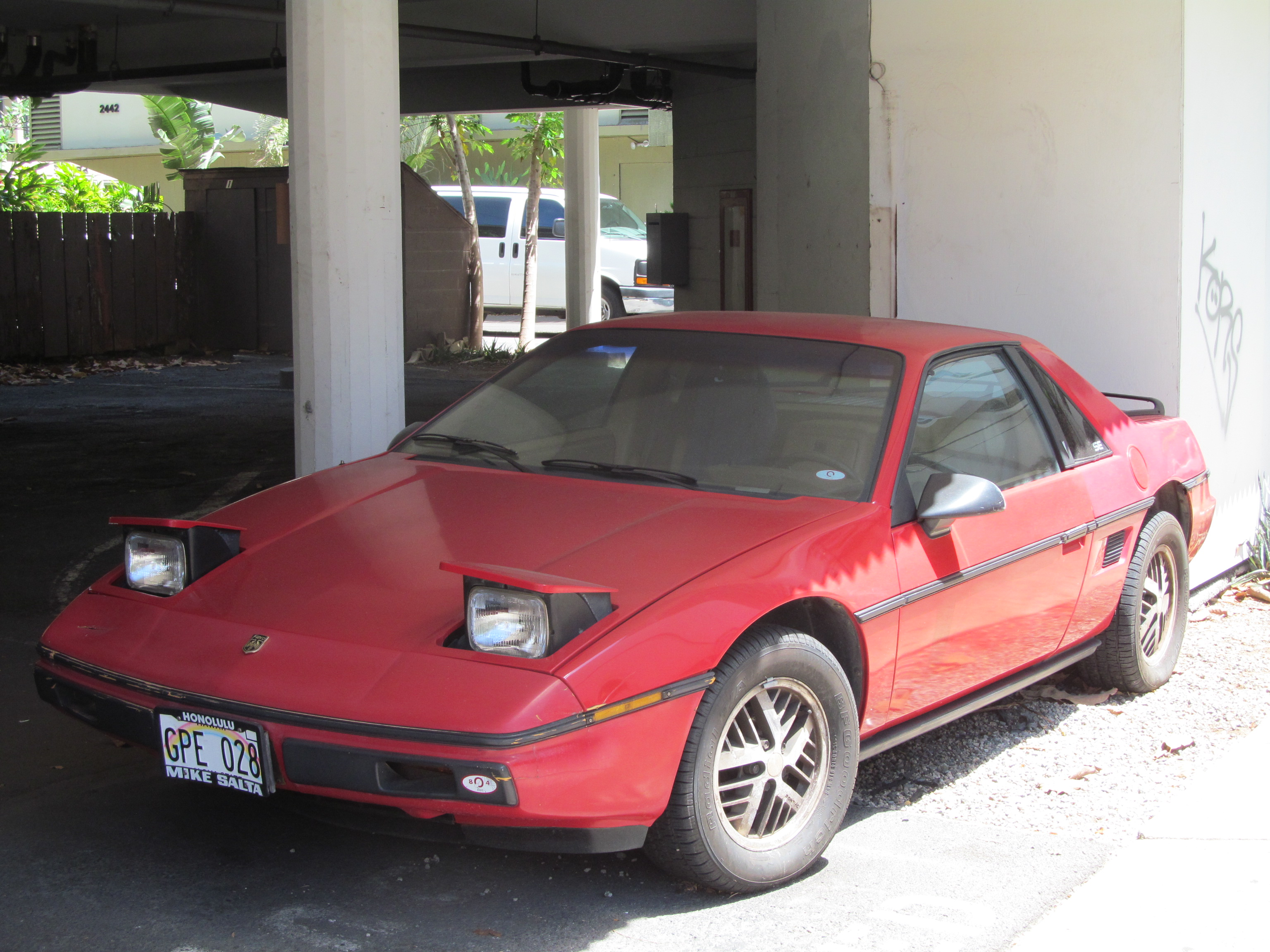 An old spot from Hawaii last year - this was sitting half inside and half outside the covered parking area of small apartments in Waikiki. It didn't appear to have been sitting long - in 2011 Streetview images it's nowhere to be seen.